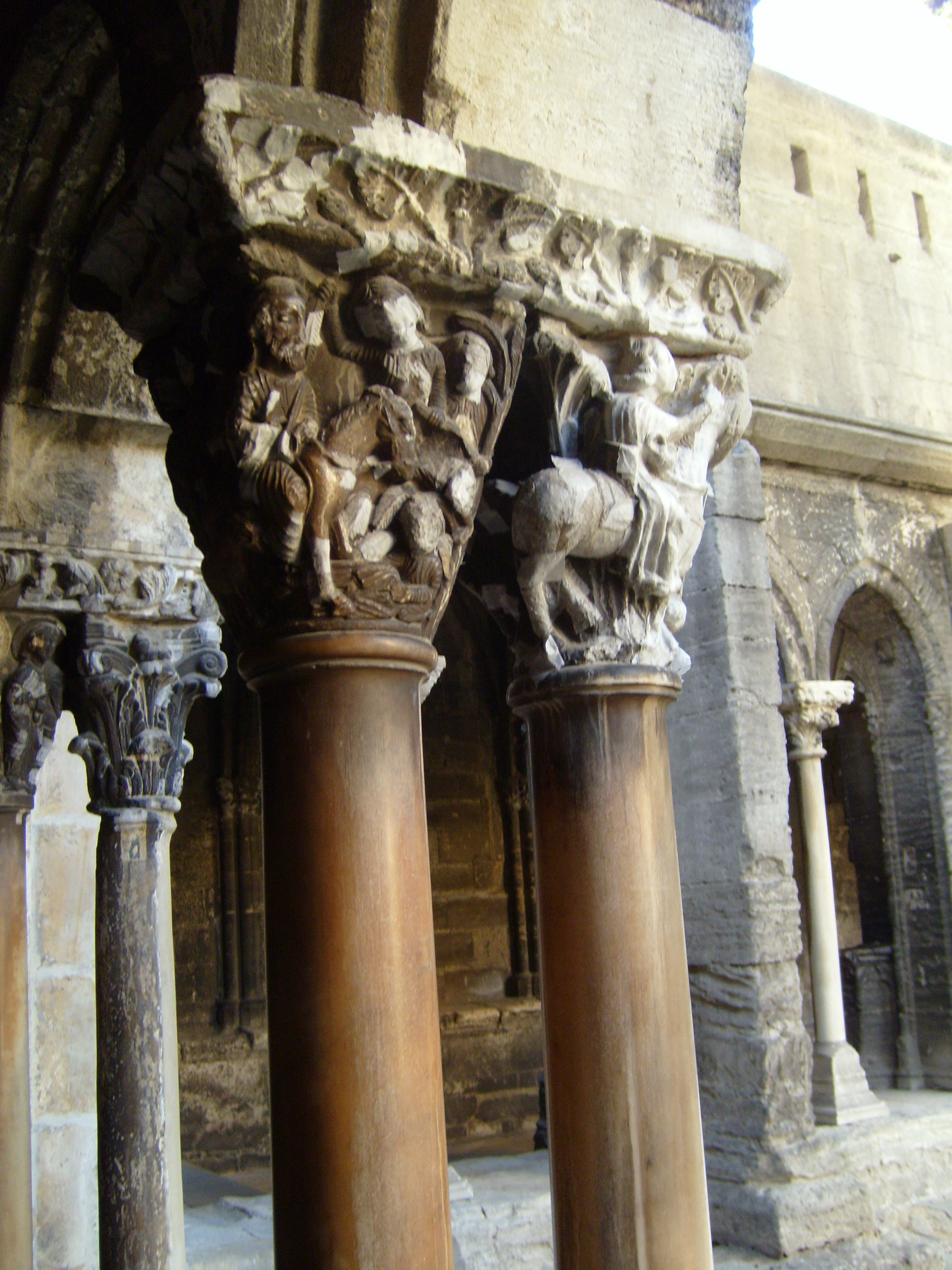 Depiction of Christ Entering Jerusalem on capital of column of cloister of St. Trophime Church, Arles, France